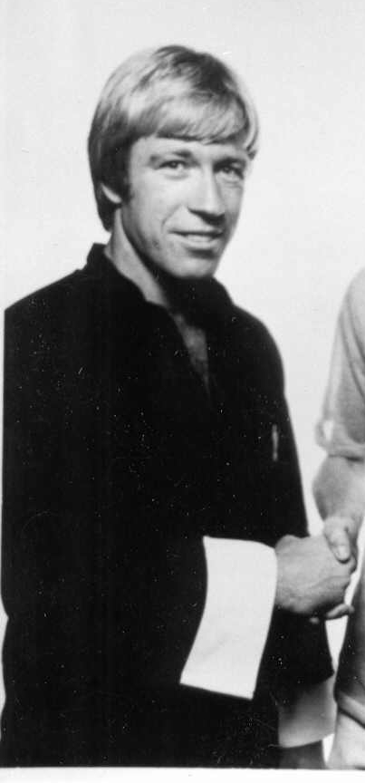 Photo of Chuck Norris.